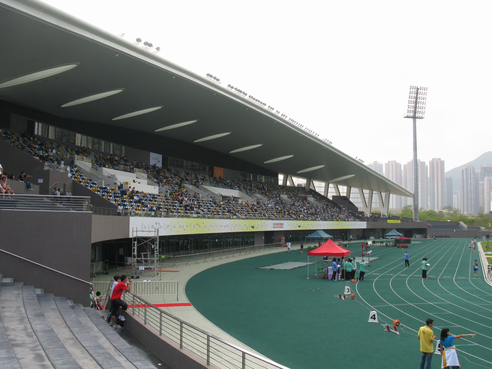 Spectator Stands with Crescent-shaped Skylights, Tseung Kwan O Sports Ground